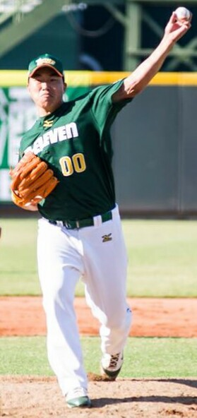 Hong-Chih Kuo at a baseball game of Taichung of Taiwan in December 1 , 2013.